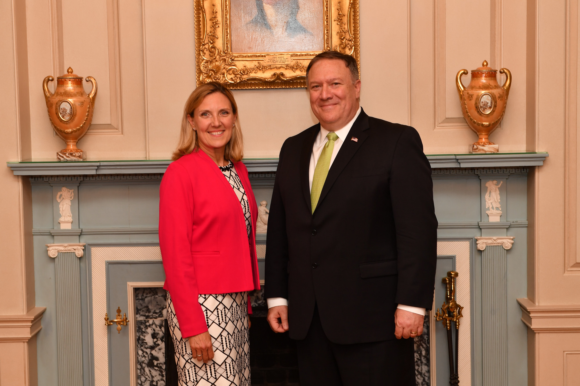 U.S. Secretary of State Mike Pompeo hosts the Ceremonial Swearing-In Ceremony for Andrea L. Thompson as Under Secretary of State for Arms Control and International Security, at the U.S. Department of State in Washington, D.C., on June 19, 2018. [State Department photo/ Public Domain]